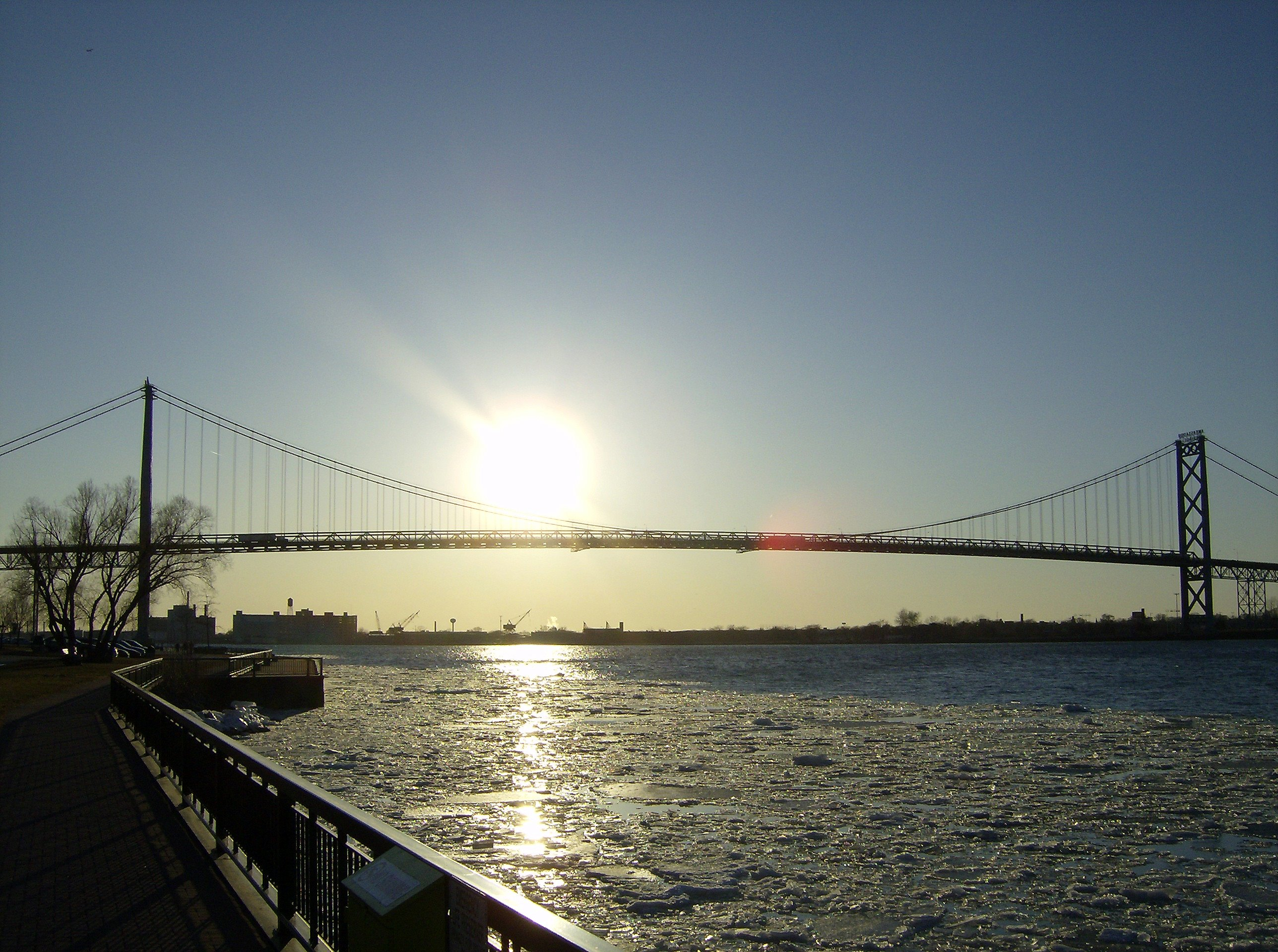 made by Mikerussel